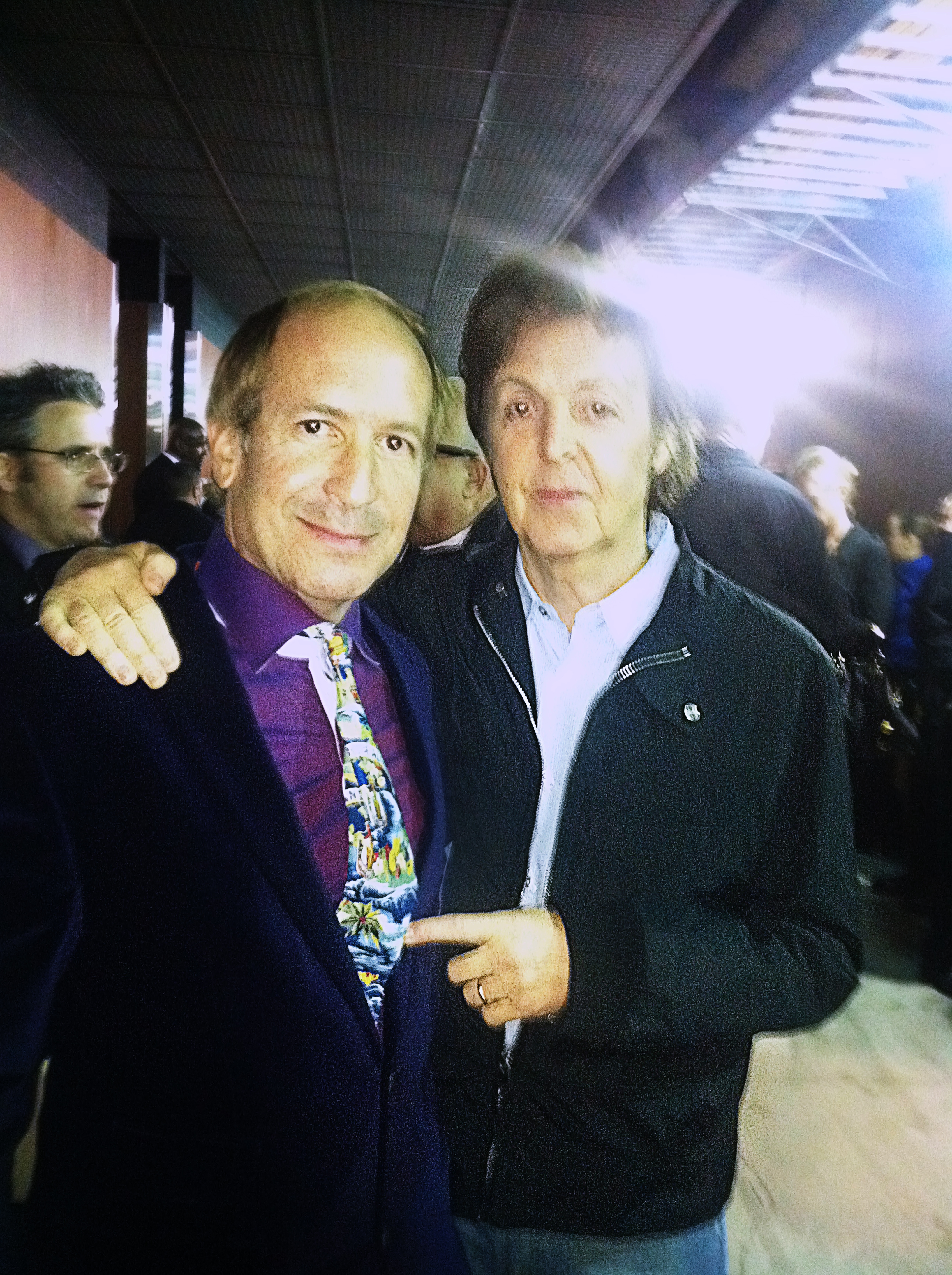 Musicians Larry Dvoskin and Paul McCartney